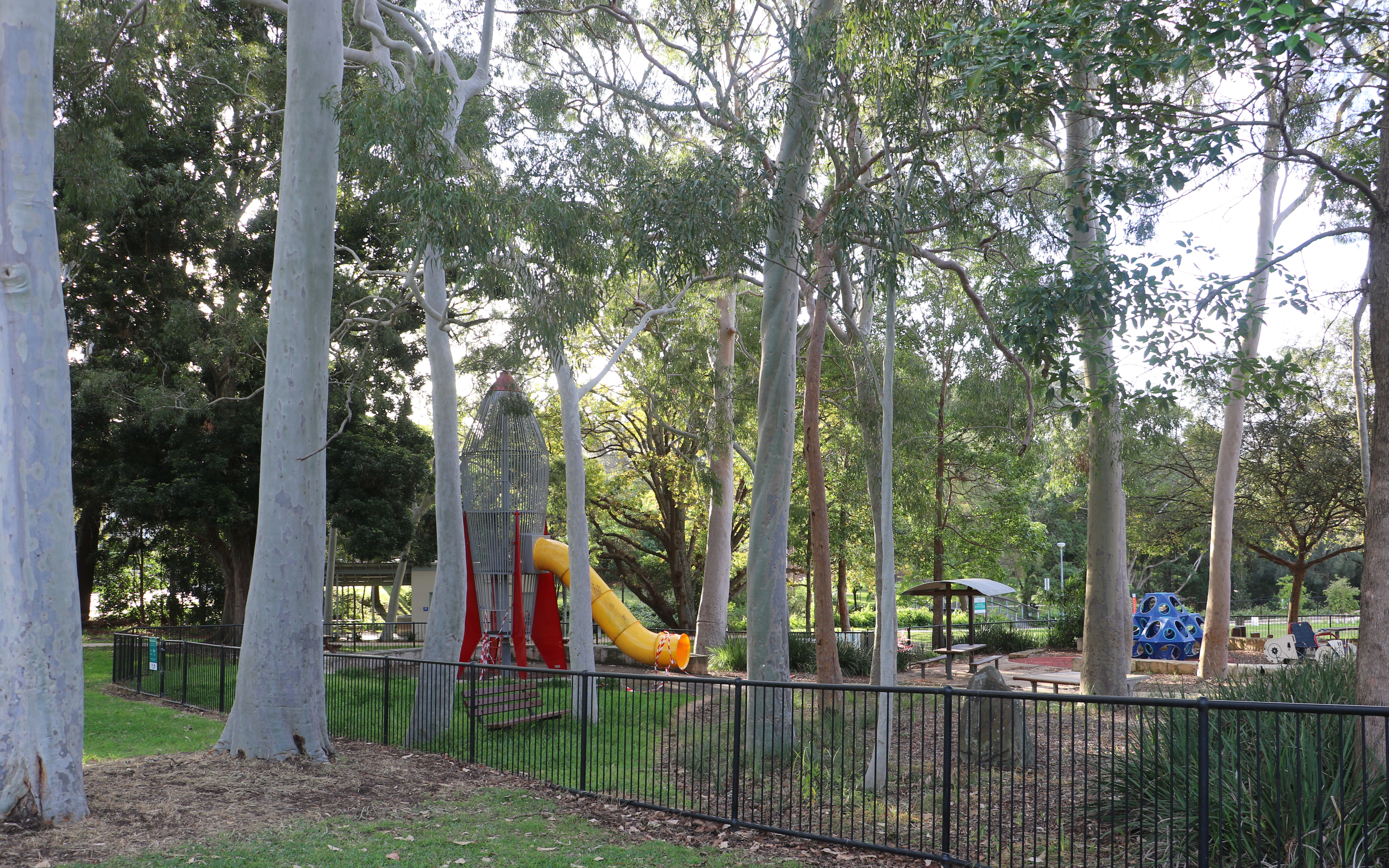 Queen Elizabeth II Grove, Lemon scented gums at Muston Park, Argyrodendron trifoliolatum (obscured) on left